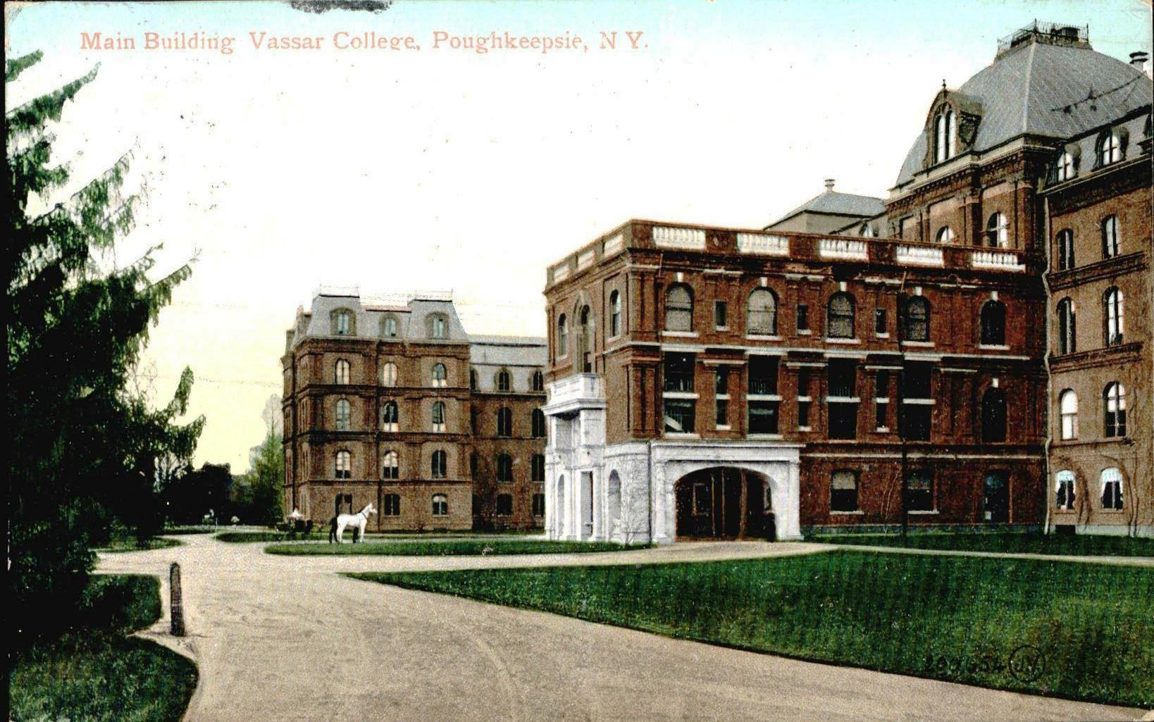 Vassar College, Main Bldg, 1907